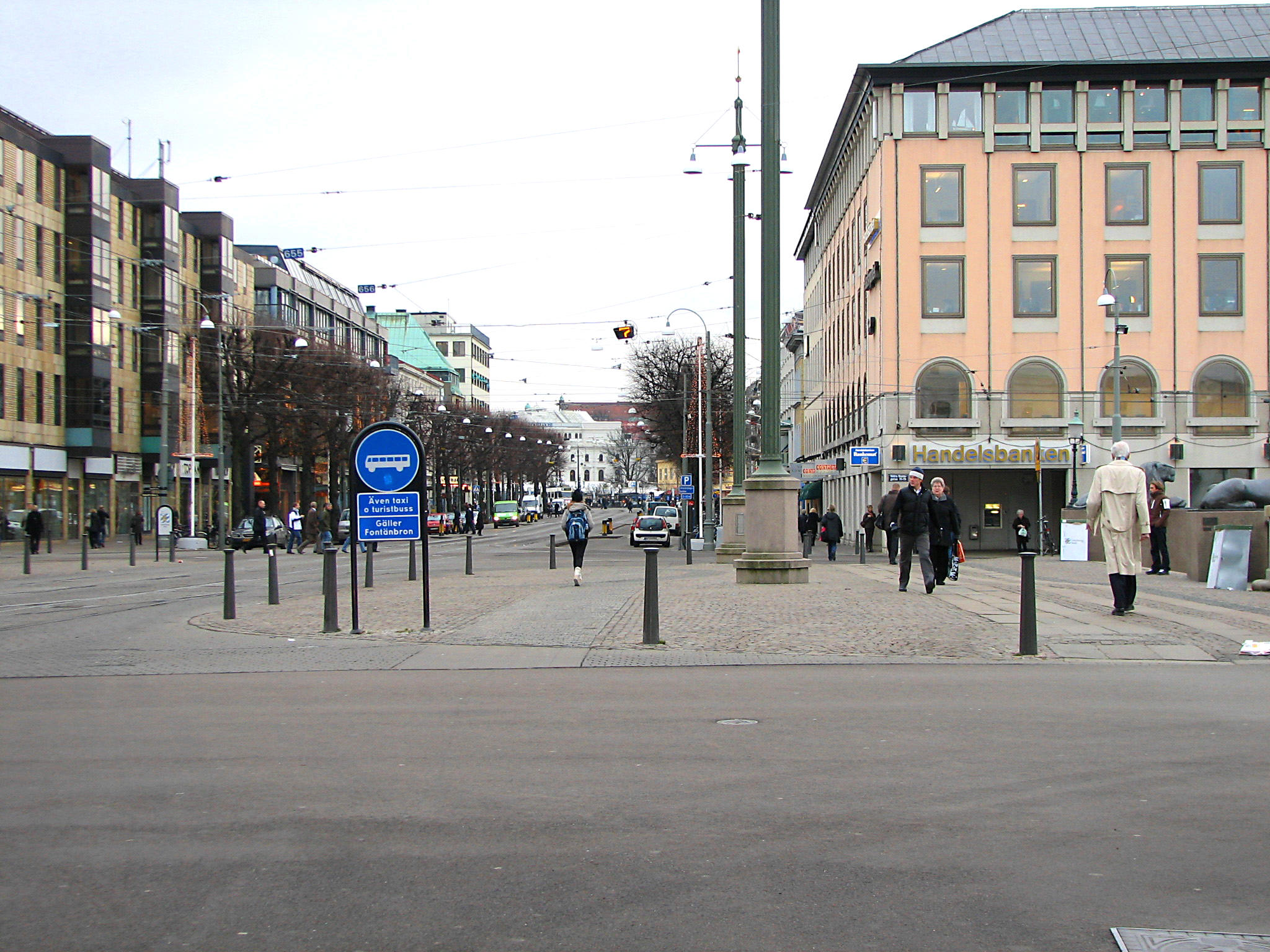 No legal evidence says this is a bicycle lane. The indications are somewhat ambiguous. Brunnsparken in Göteborg, Sweden.